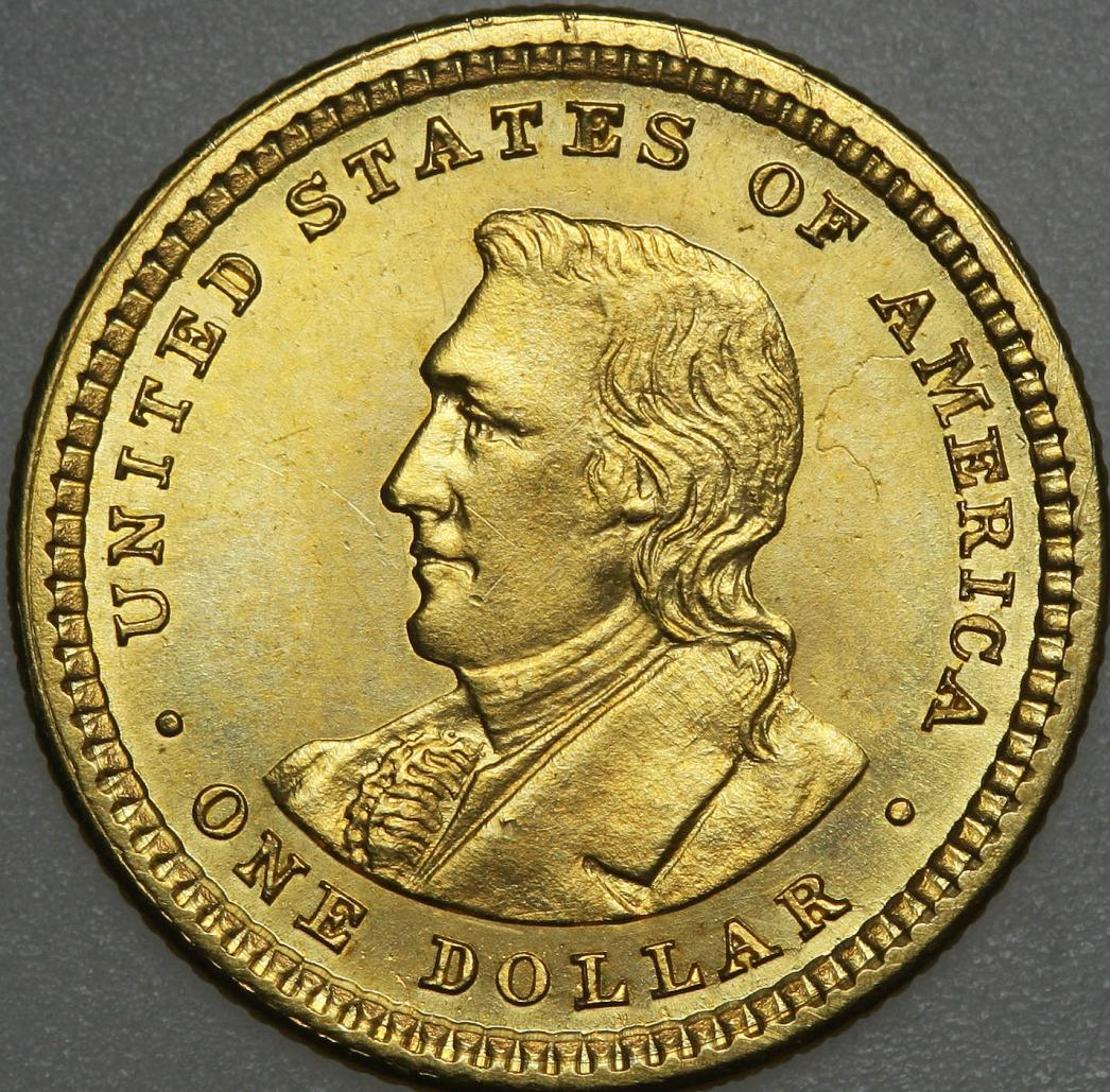 Reverse of a 1904 Lewis and Clark gold dollar. Meriwether Lewis depicted on obverse, William Clark on reverse